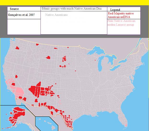 Native American DNA in U.S.A is significent in Red and Pink regions